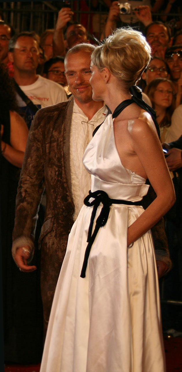 Sharon Stone, chairwoman of amfAR’s campaign for AIDS research, with Gery Keszler, founder of the the Life Ball, on the red carpet at the opening of the Life Ball 2007 at the Rathausplatz in Vienna, Austria.